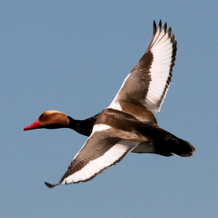 Red Crested Pochard (Netta rufina) This image was created by Ken Billington. If you are interested in a high resolution copy of this image, please contact the author Ken Billington in order to negotiate conditions of use. Do not copy this image illegally by ignoring the terms of the license below, as it is not in the public domain. If you would like special permission to use, license, or purchase the image please contact me to negotiate terms. More free images can be found on Ken Billington's Bird & Wildlife Photography.